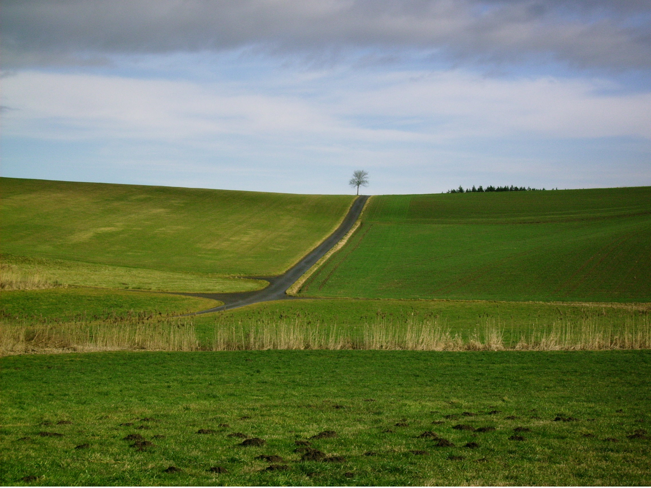 Description: Hill in the near of Beuren (Part of Schnürpflingen)